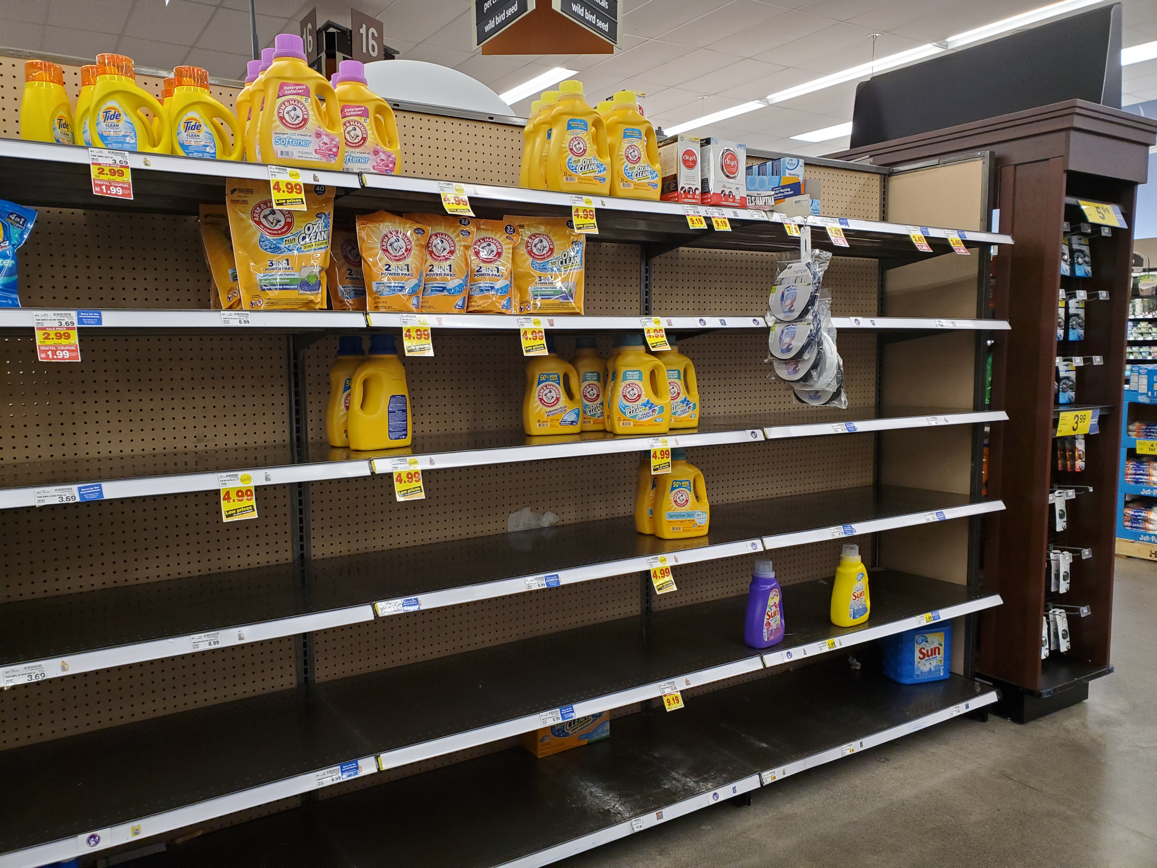 A half-empty shelf at a Kroger in Springfield, Tennessee in March 2020, during the 2020 coronavirus pandemic in Tennessee.